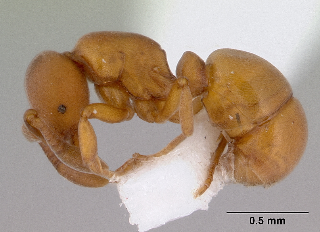 Profile view of ant Discothyrea antarctica specimen casent0172126.